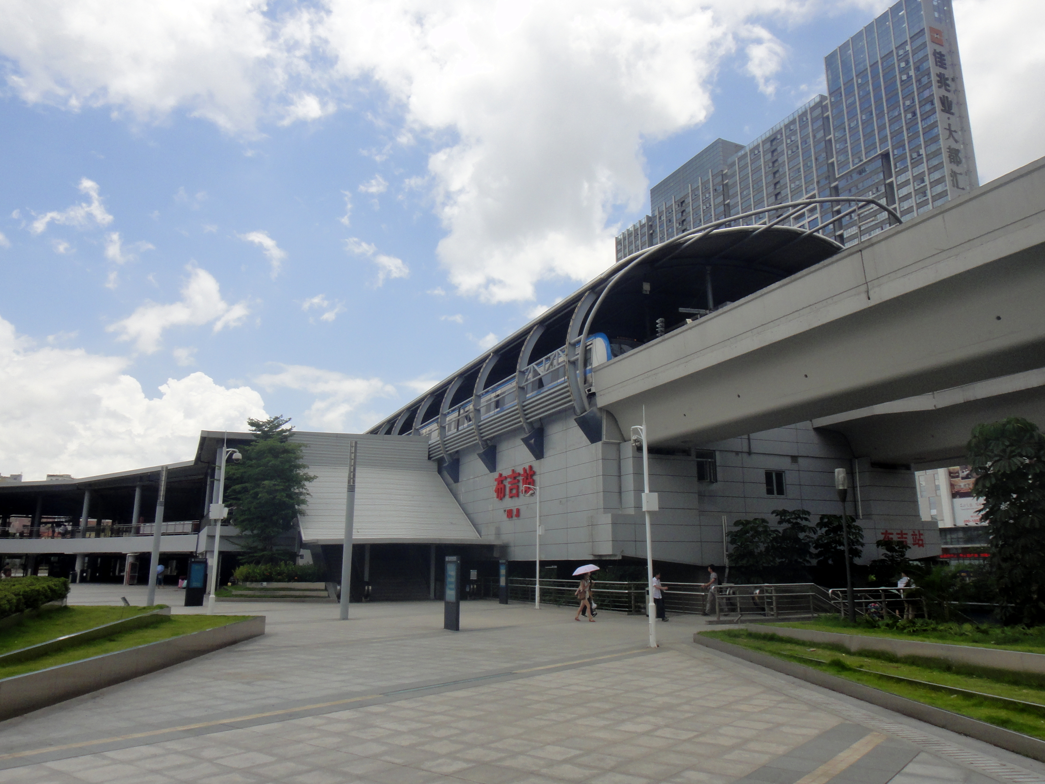 A view of the elevated Longgang metro line